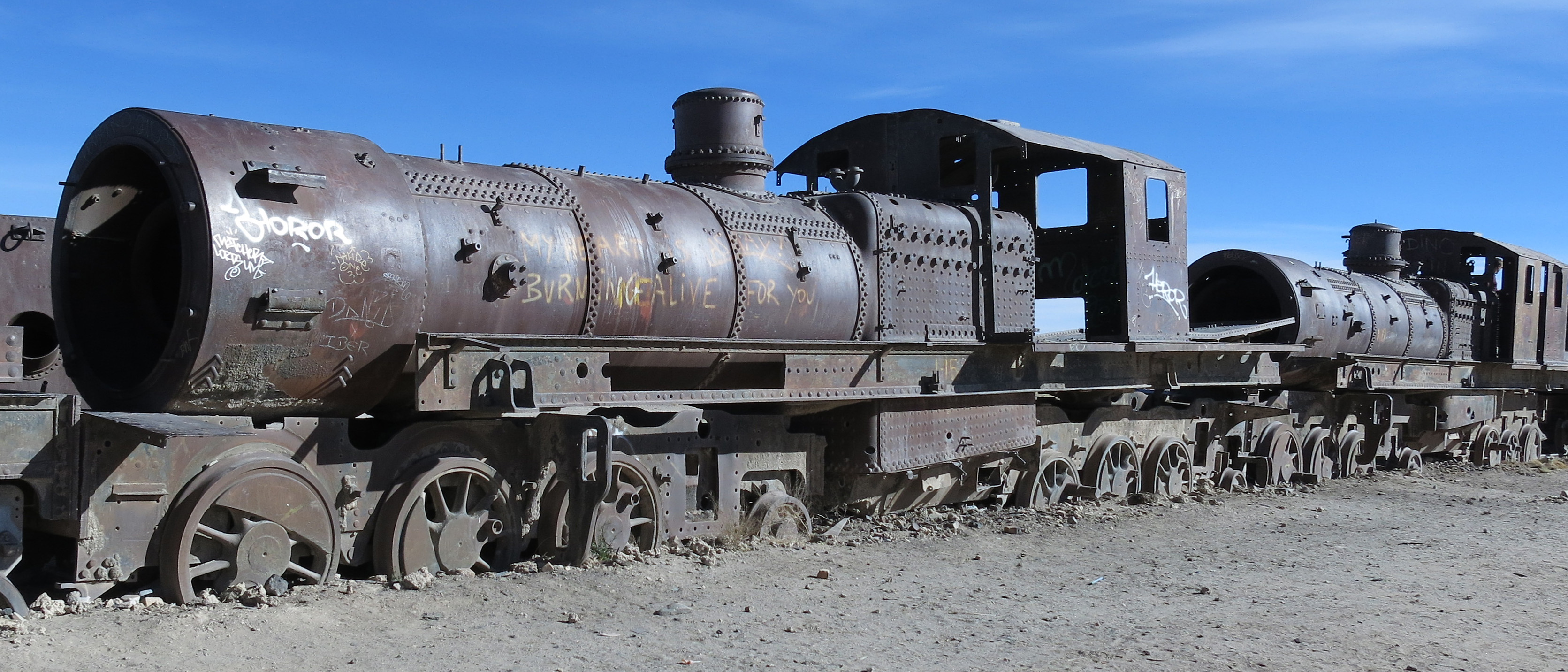 The derelict remains of two Kitson-Meyer locomotives in the "Locomotive Graveyard" on the outskirts of Uyuni, Bolivia. These meter-gauge locomotives were built by Beyer Peacock in 1913 and ran cab first giving an effective wheel arrangement of 2-6-0+2-6-0T.